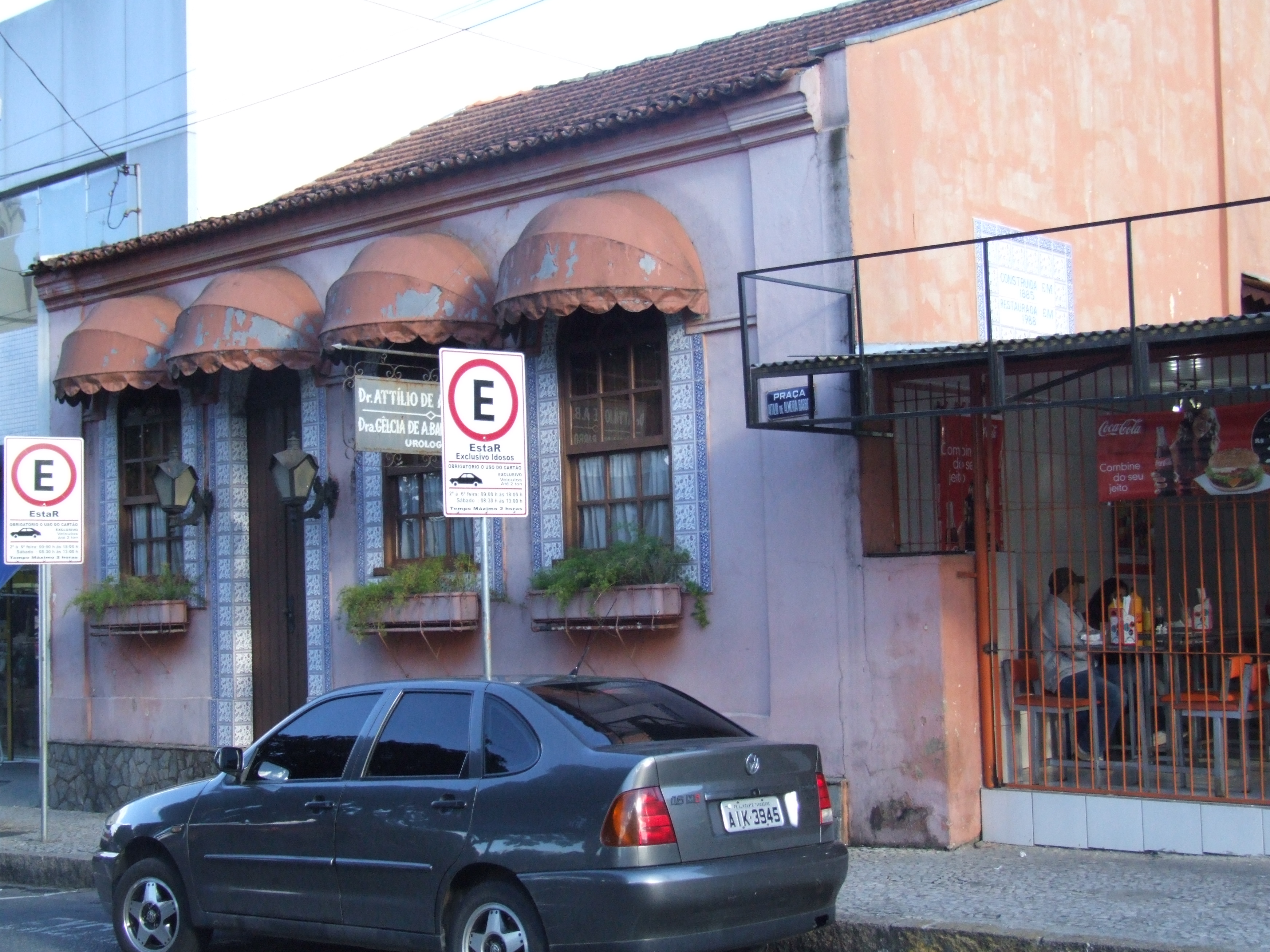 Ancient house of Campo Largo built in 1885 and restored in 1988.